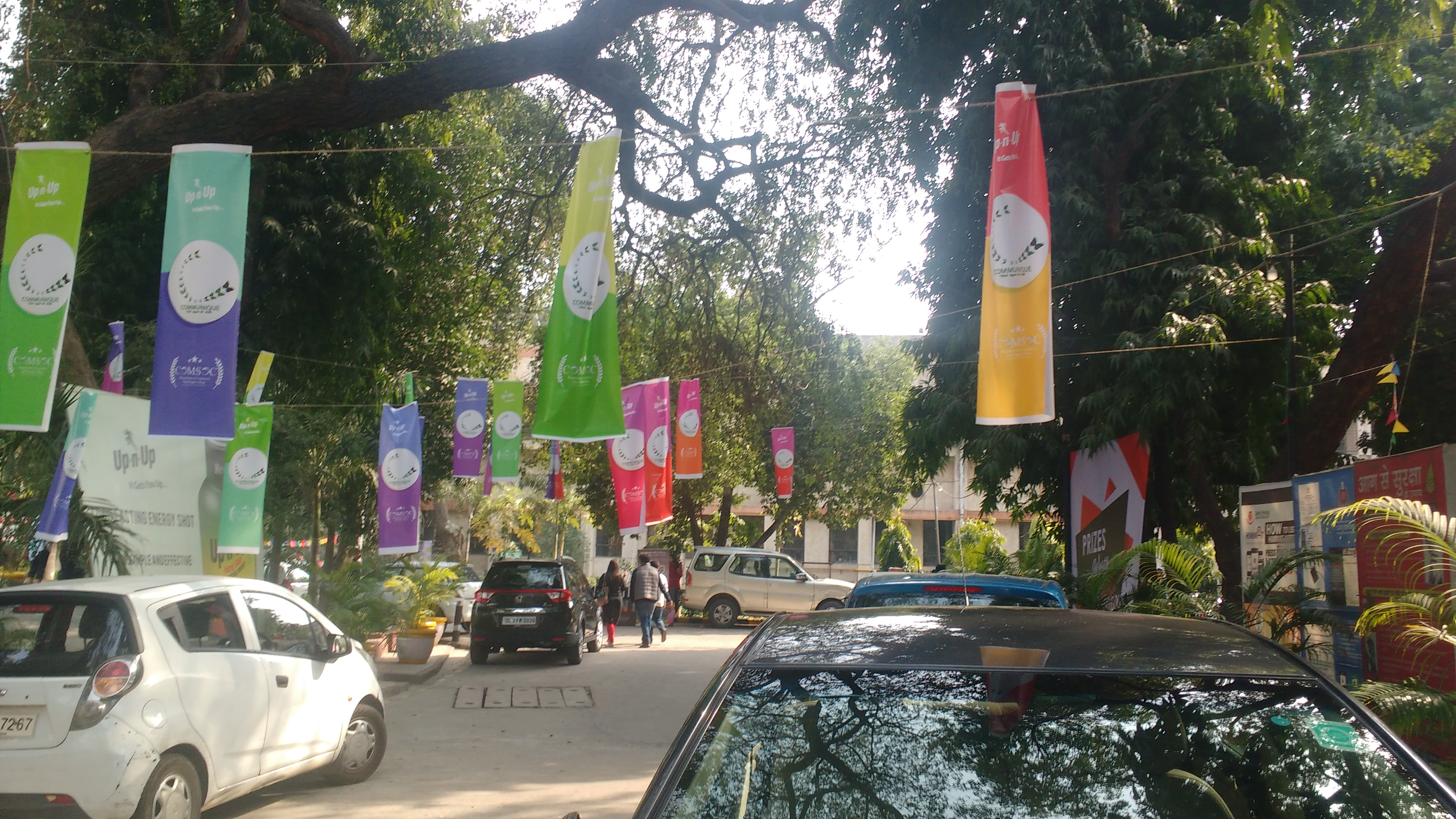 College landscape